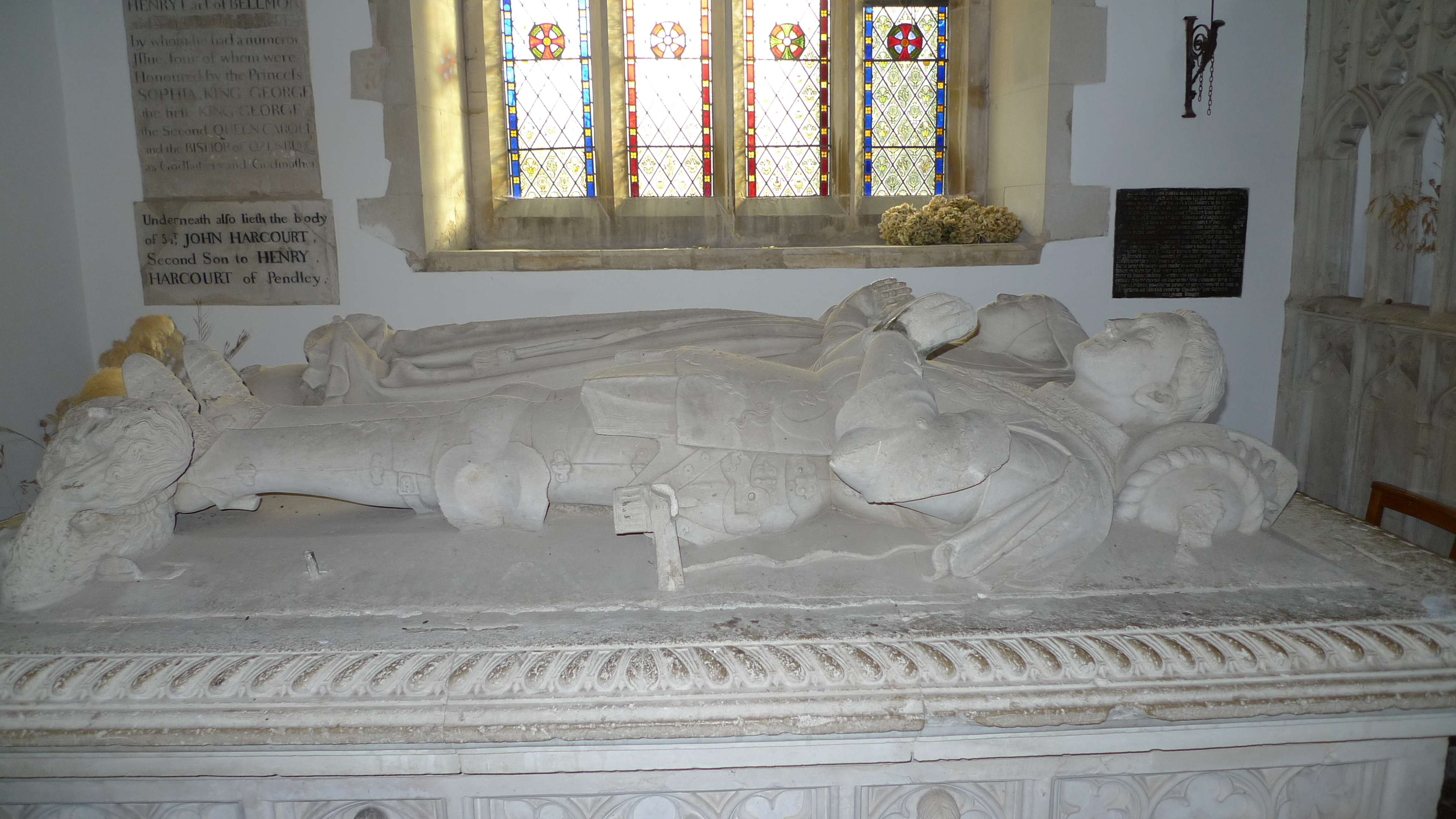 Altar tomb and monument to Sir Robert Whittingham and his lady. Brought from Ashridge in 1575 to St John the Baptist, Aldbury, Hertfordshire, England.